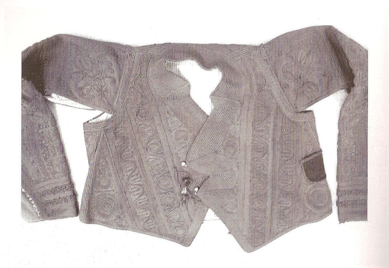 Xhamadan of Isa Boletini, Albanian revolutionary, currently exposed in the National Museum of Tirana